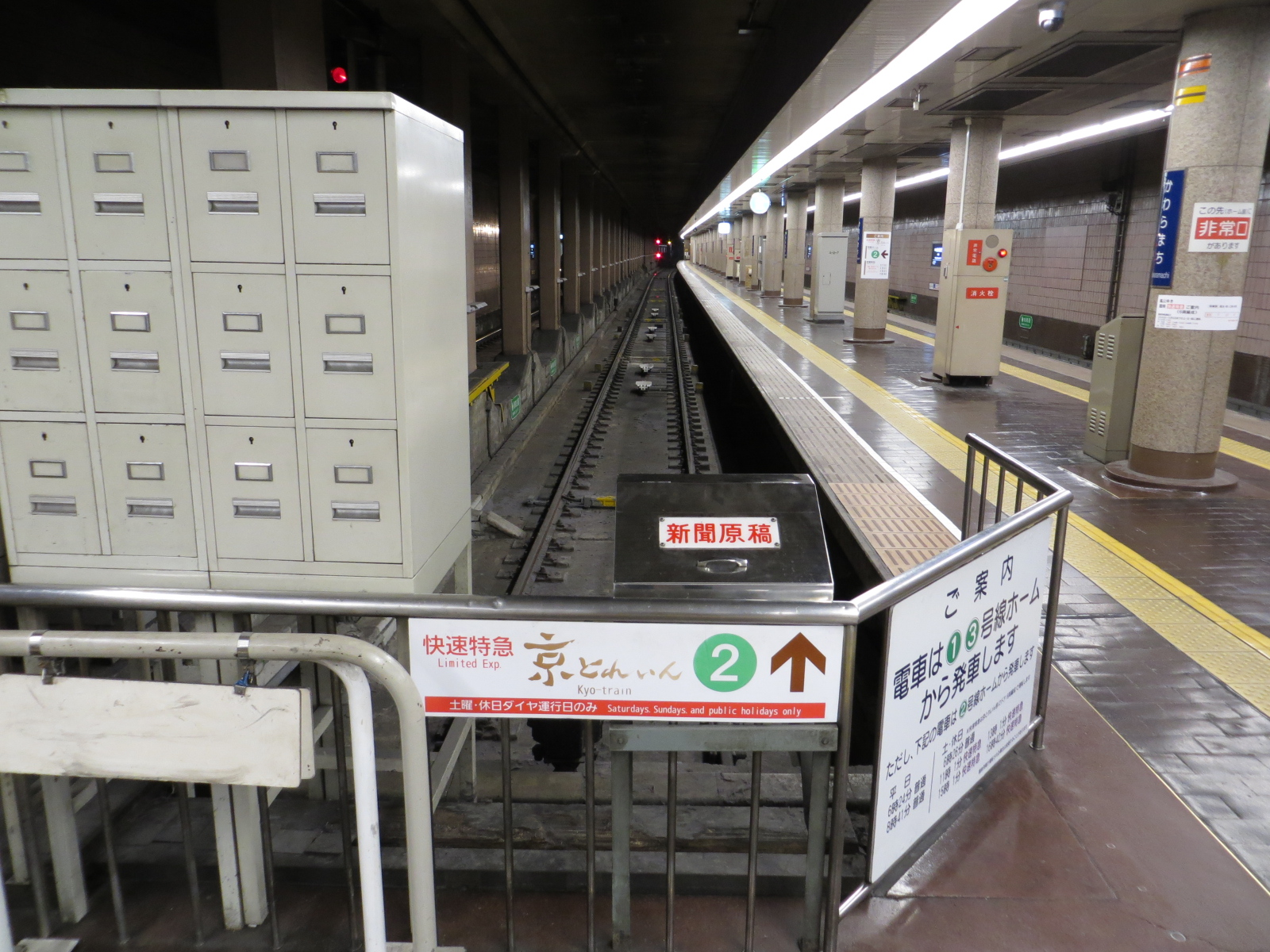 2nd Plathome from Hankyu Kawaramachi Station.